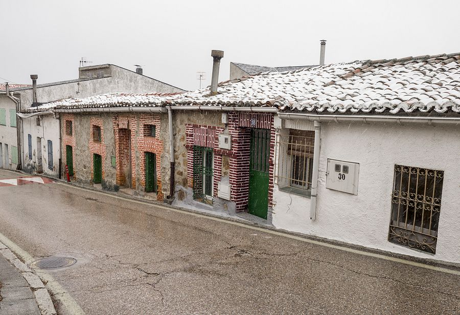 Arquitectura típica.